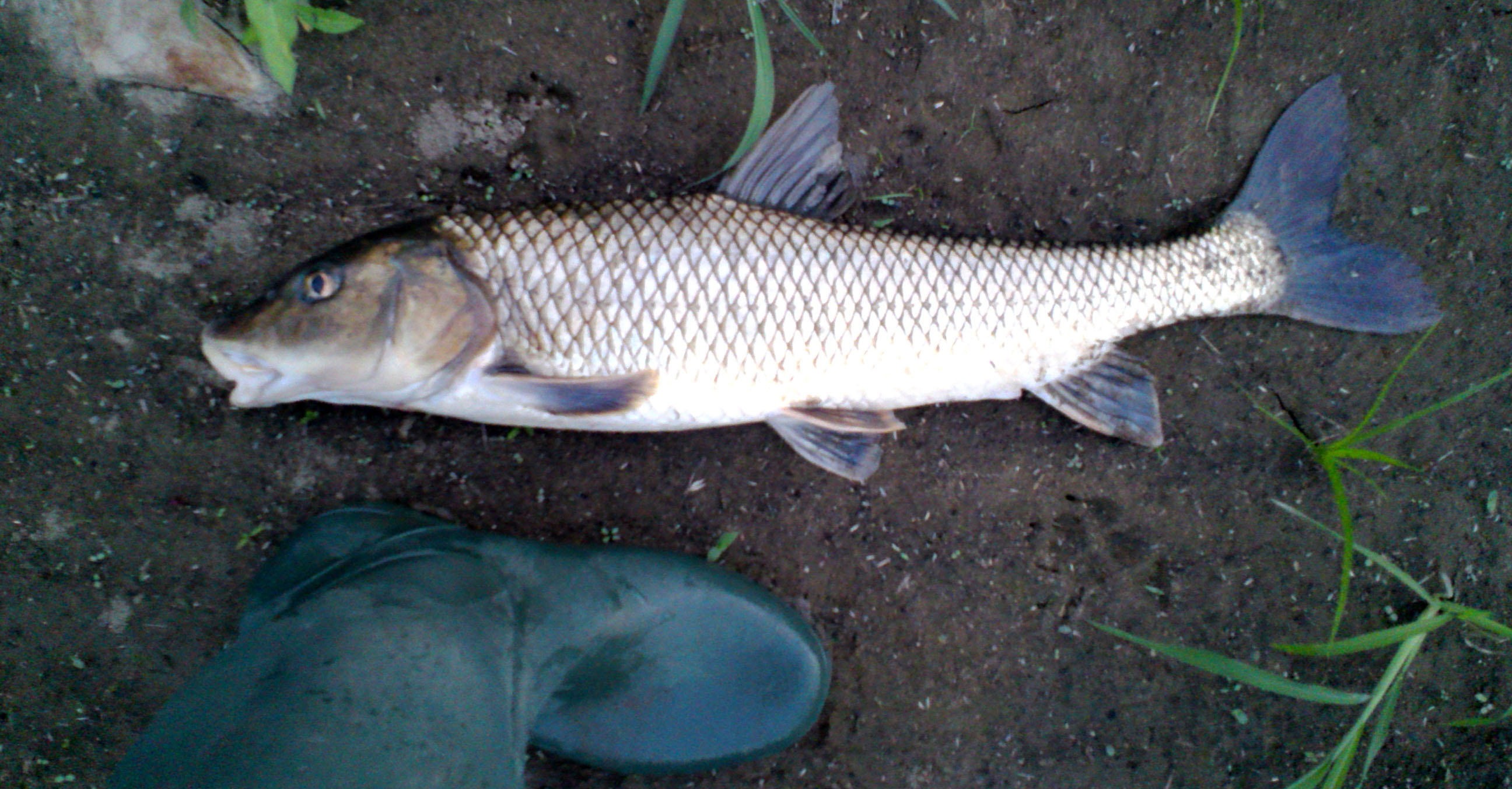 Barbel steed. Chikuma-gawa River. Nagano pref., Japan.